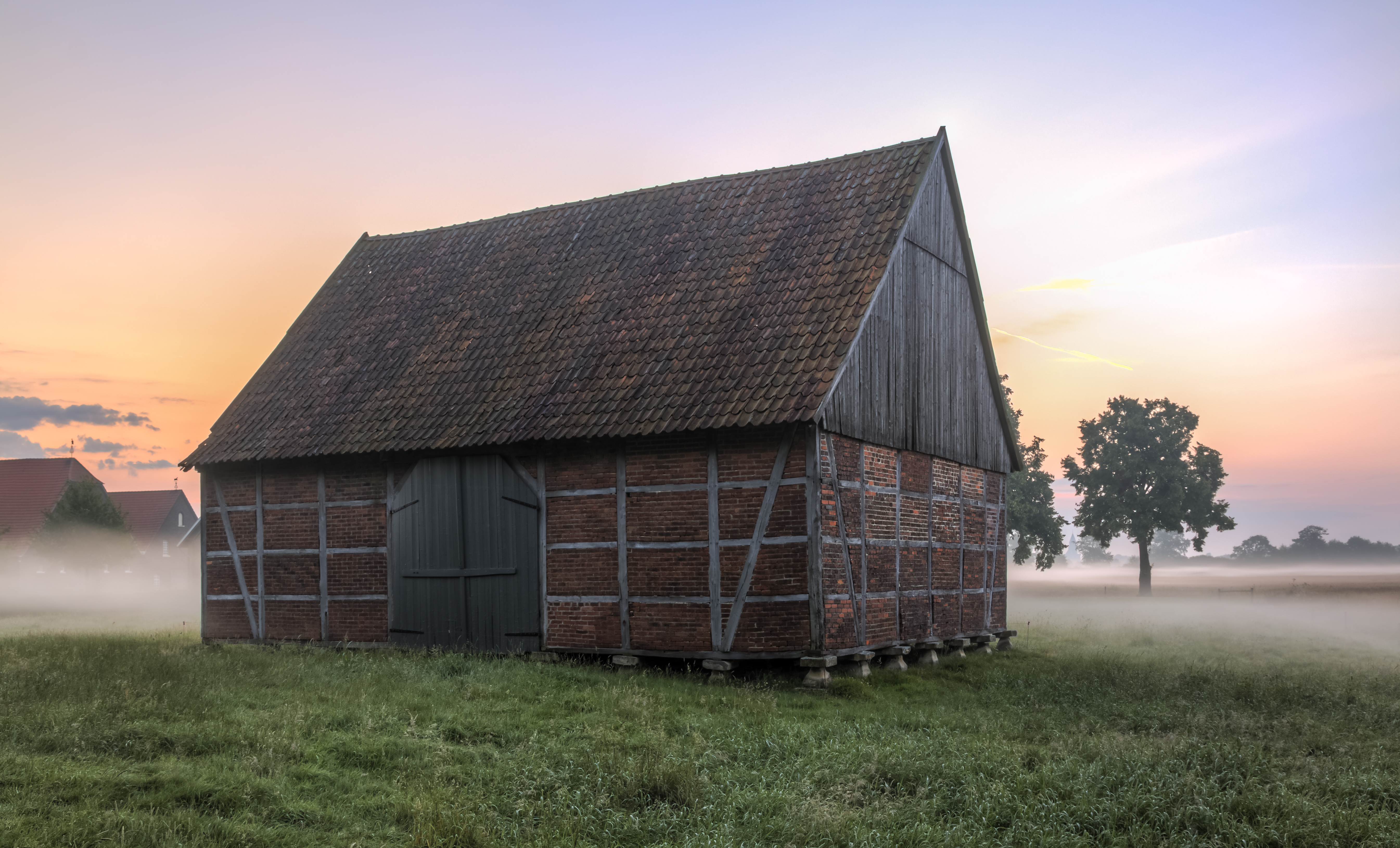 Mäusescheune, Rödder, Kirchspiel, Dülmen, North Rhine-Westphalia, Germany